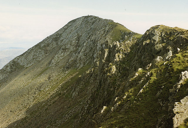 The summit of Moelwyn Mawr. Seen from the final stages of the west ridge.